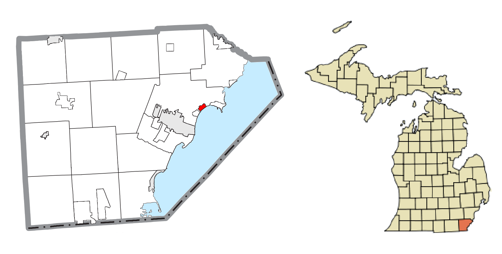 Woodland Beach, MI